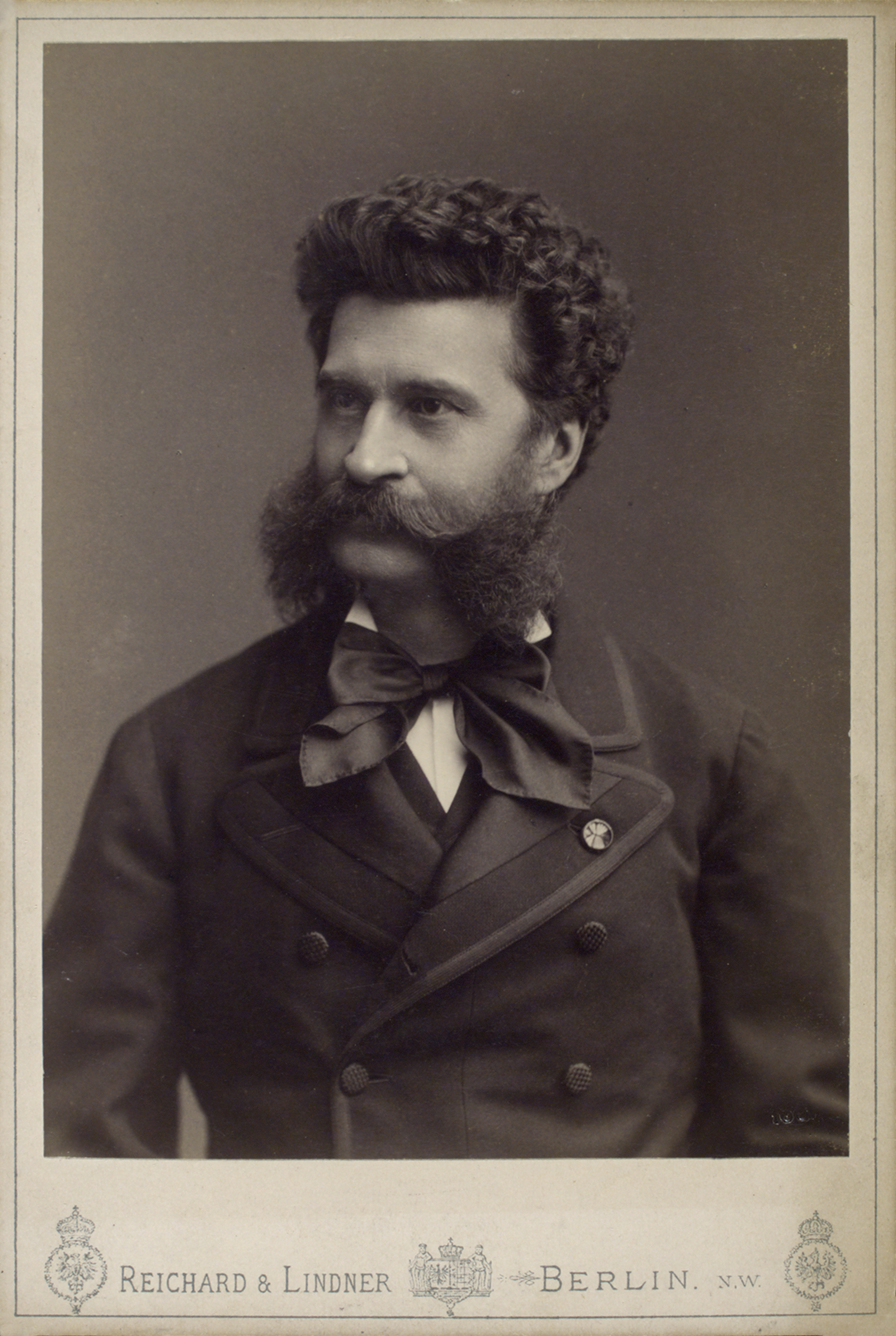 Johann Strauss II (1825–1899), waltz composer, early in his career